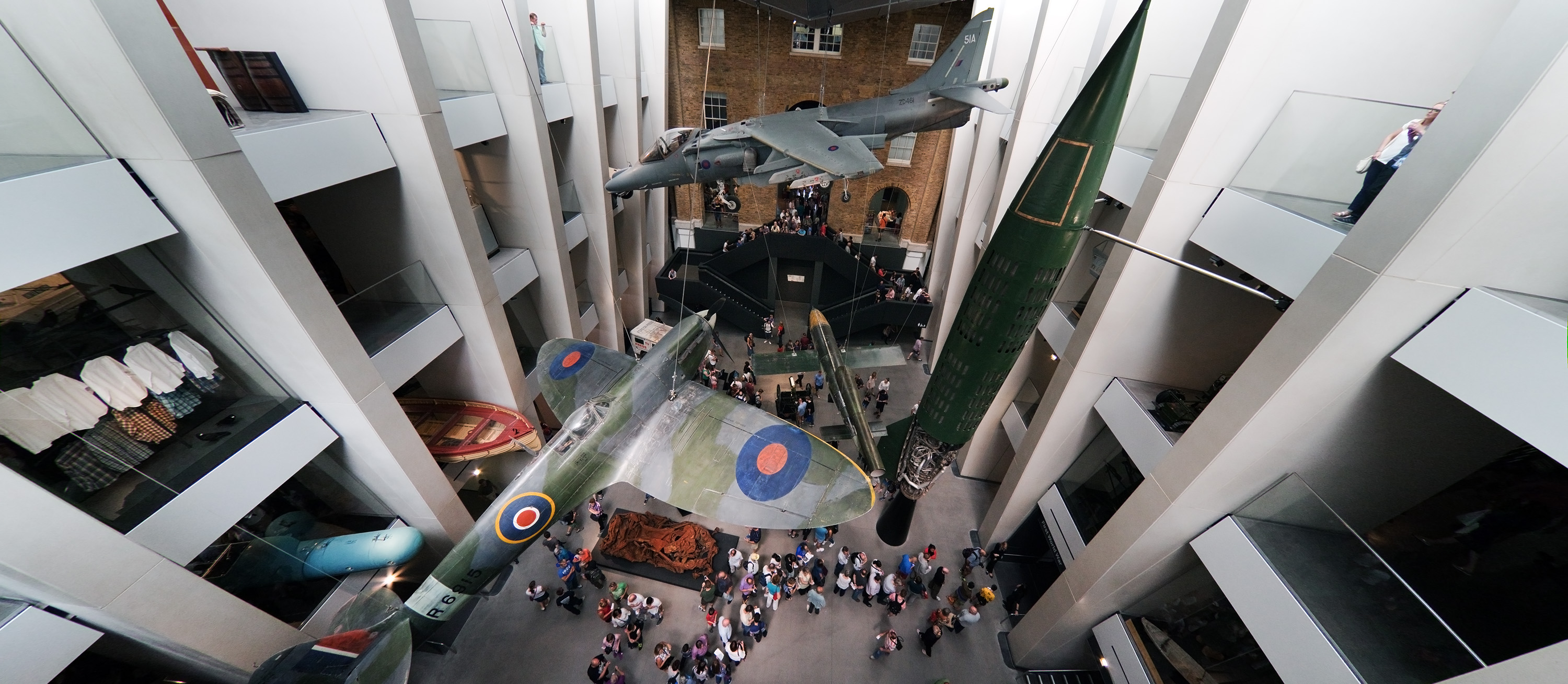 The new atrium of the Imperial War Museum, July 2014.